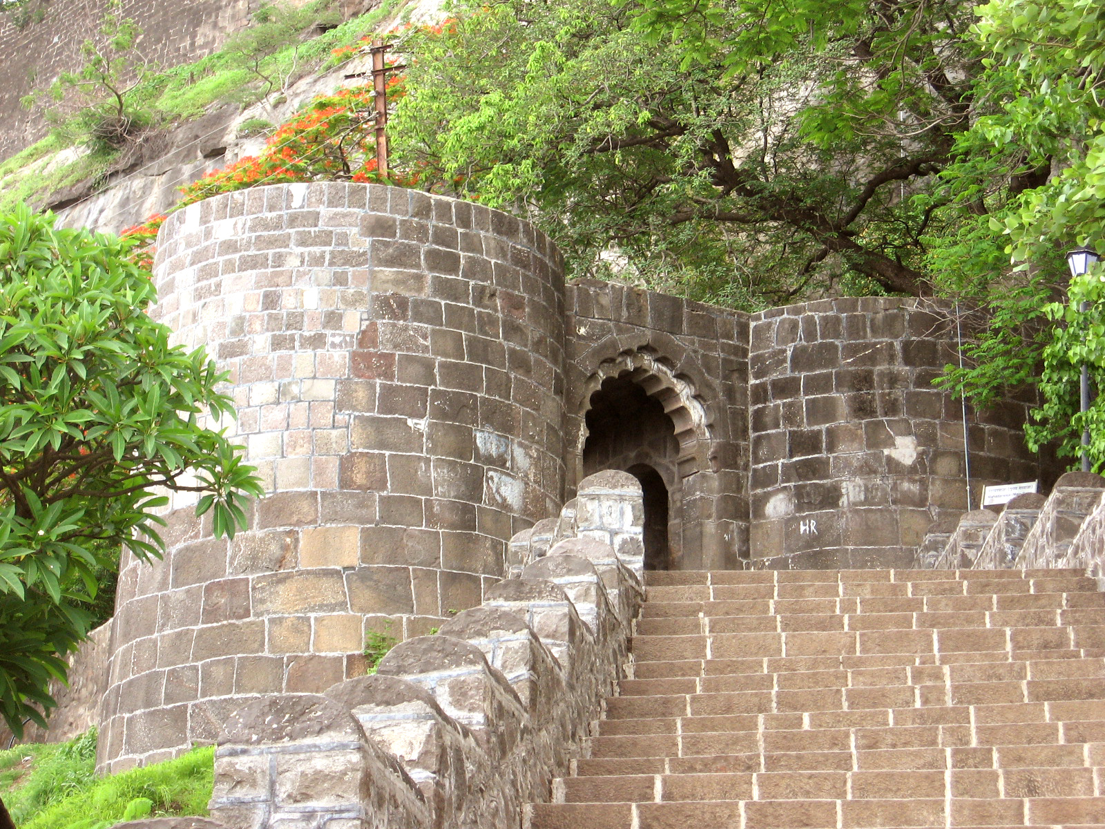 shivneri fort